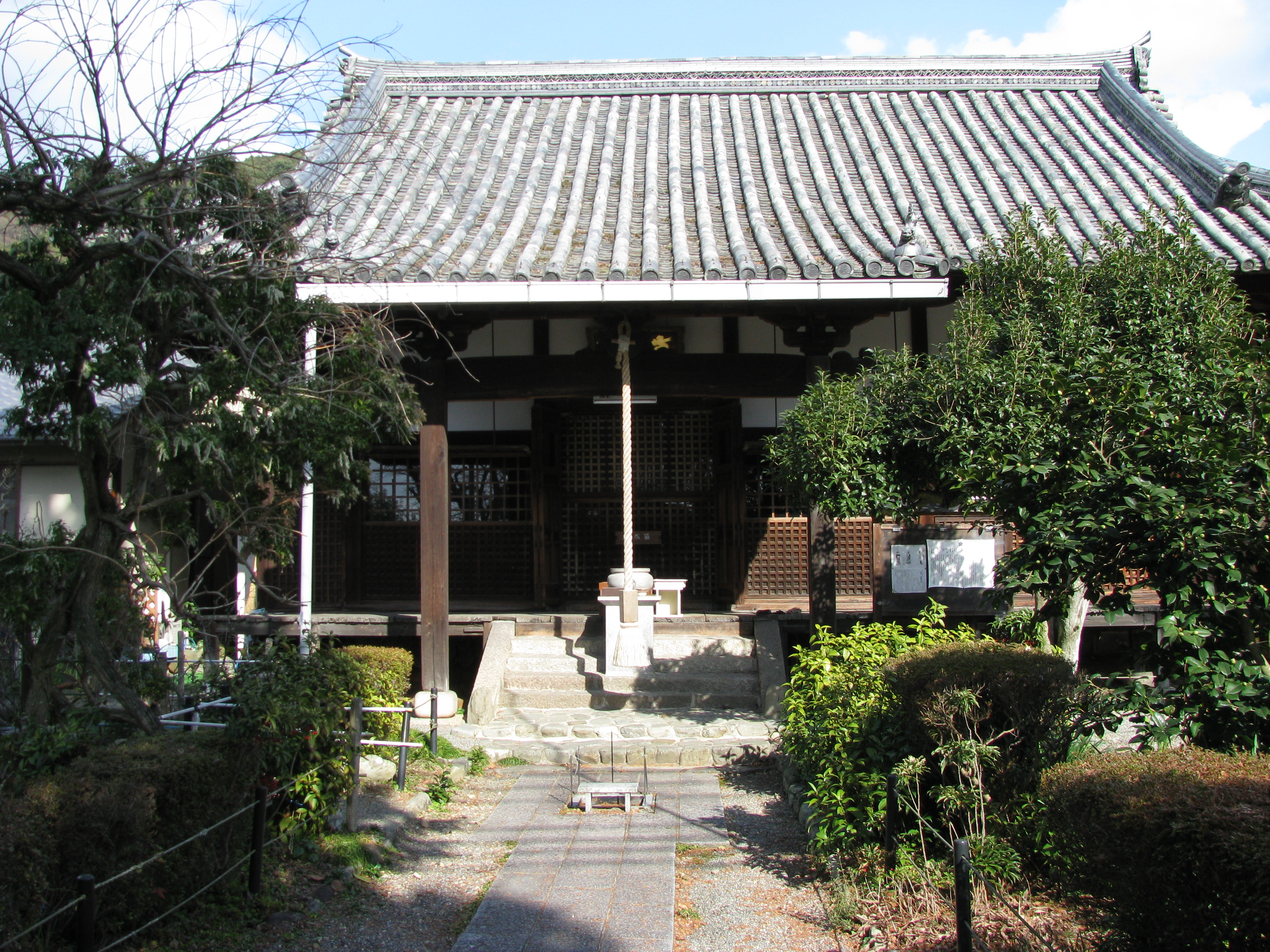 Eshin-In temple in Uji, Kyoto, Japan